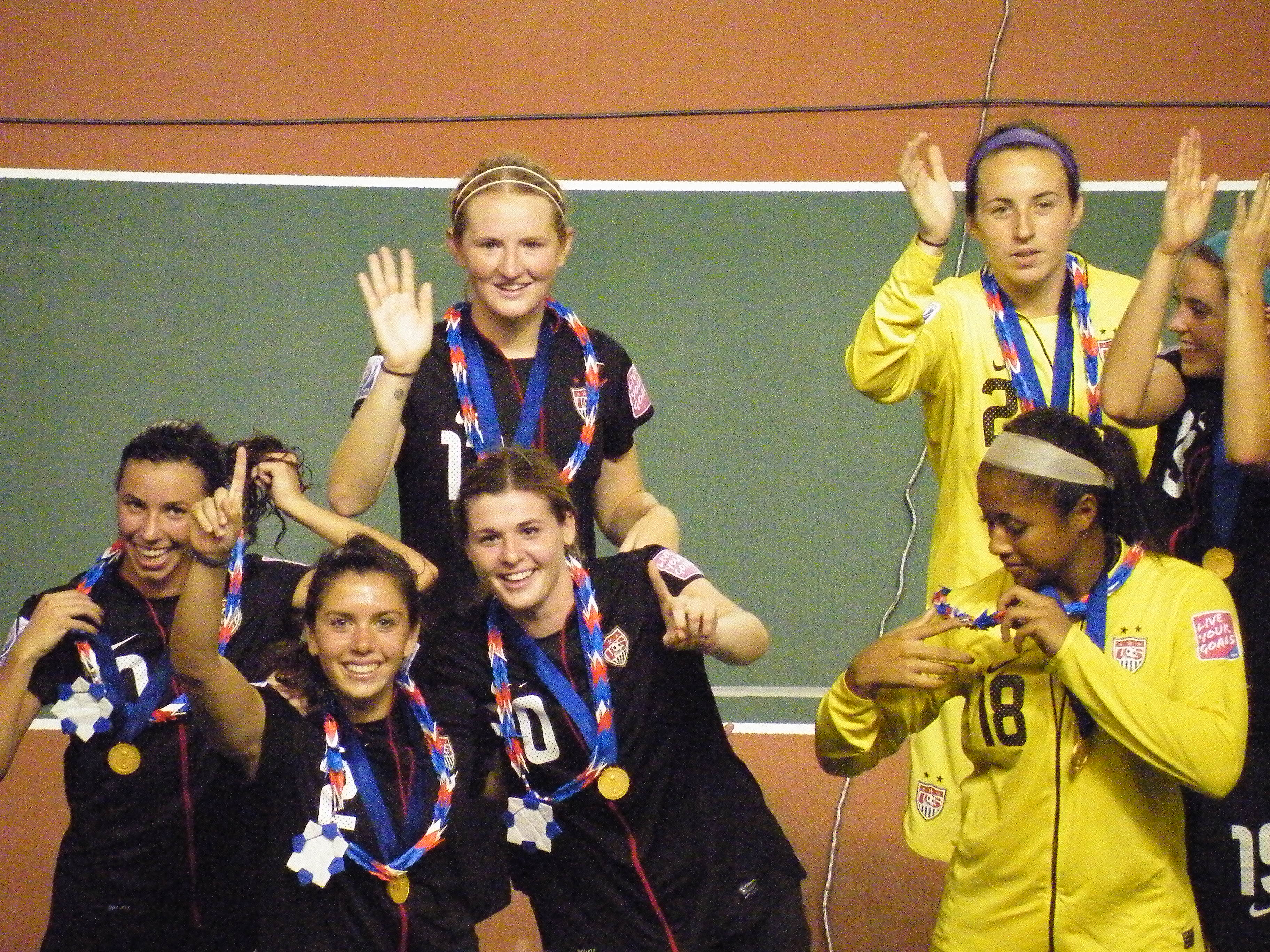 FIFA U-20 Women's World Cup 2012 Awards Ceremony